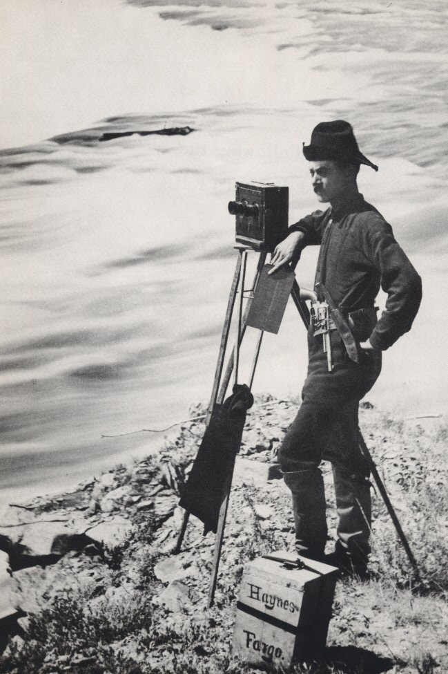 Self-Portrait of Frank Jay Haynes, Photographer, at the Missouri River, 1876